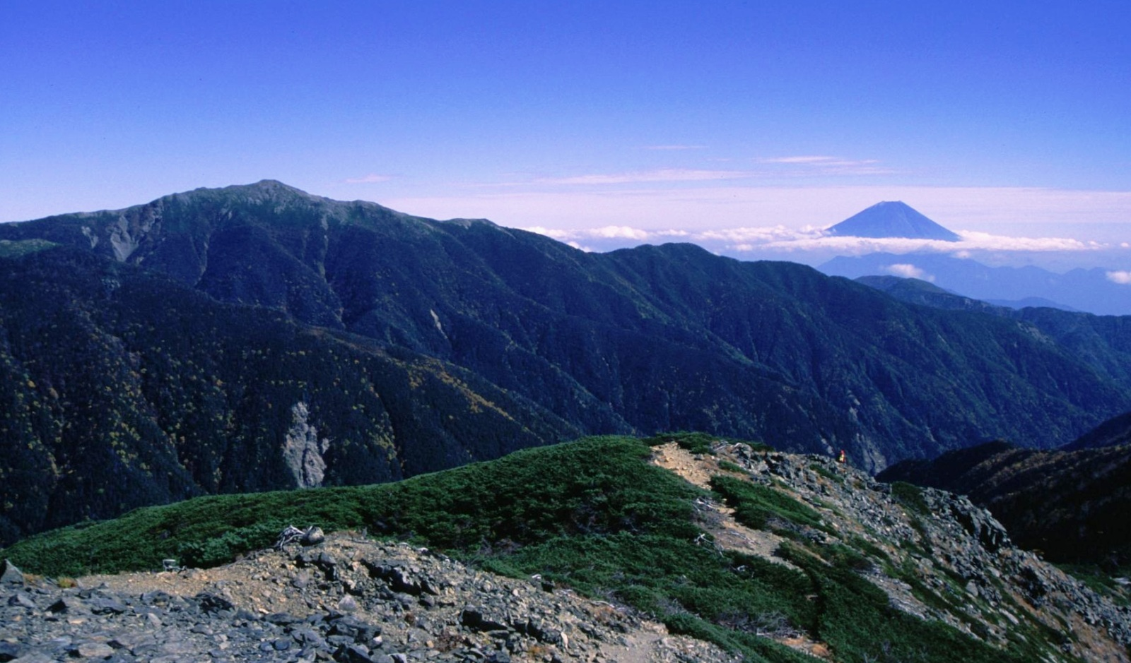 Mount Fuji and Mount Koumori from Mount Oogōchi